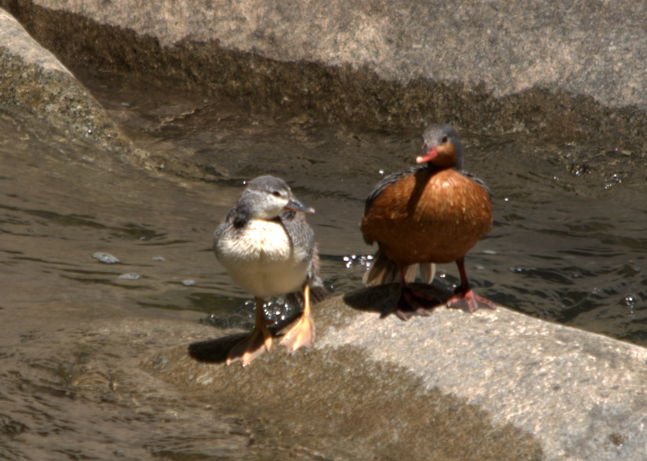 A juvenile and an adult female Torrent Ducks at on Urumamba River, near Aguas Calientes, Peru.